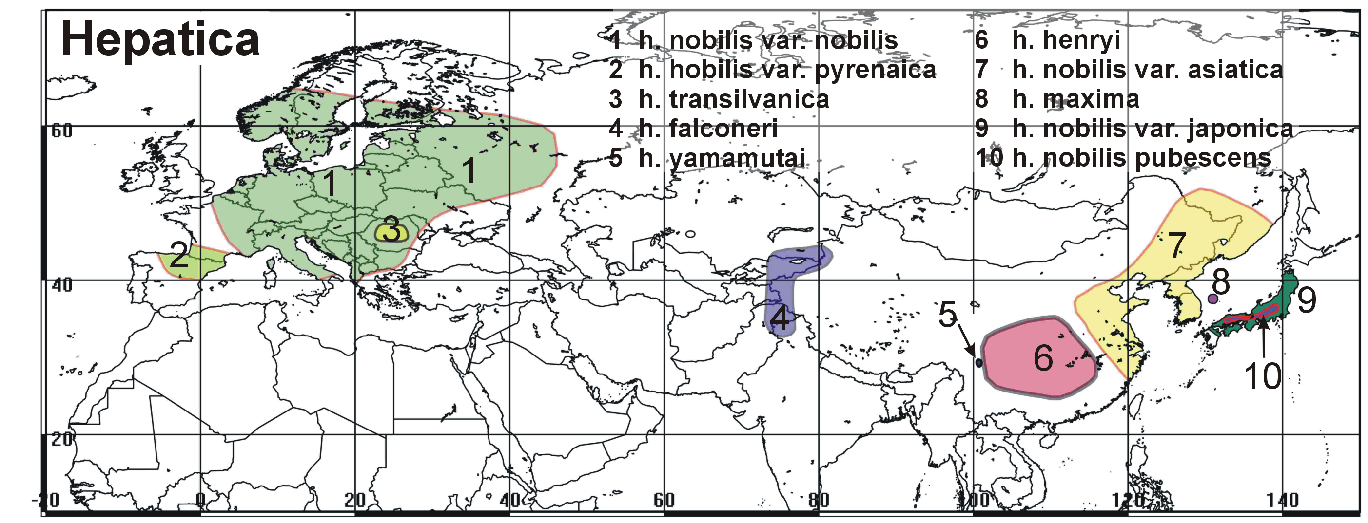 Distribution map of Hepatica species in Europe and Asia. (Presumed natural spread according to different wikipedia sources)